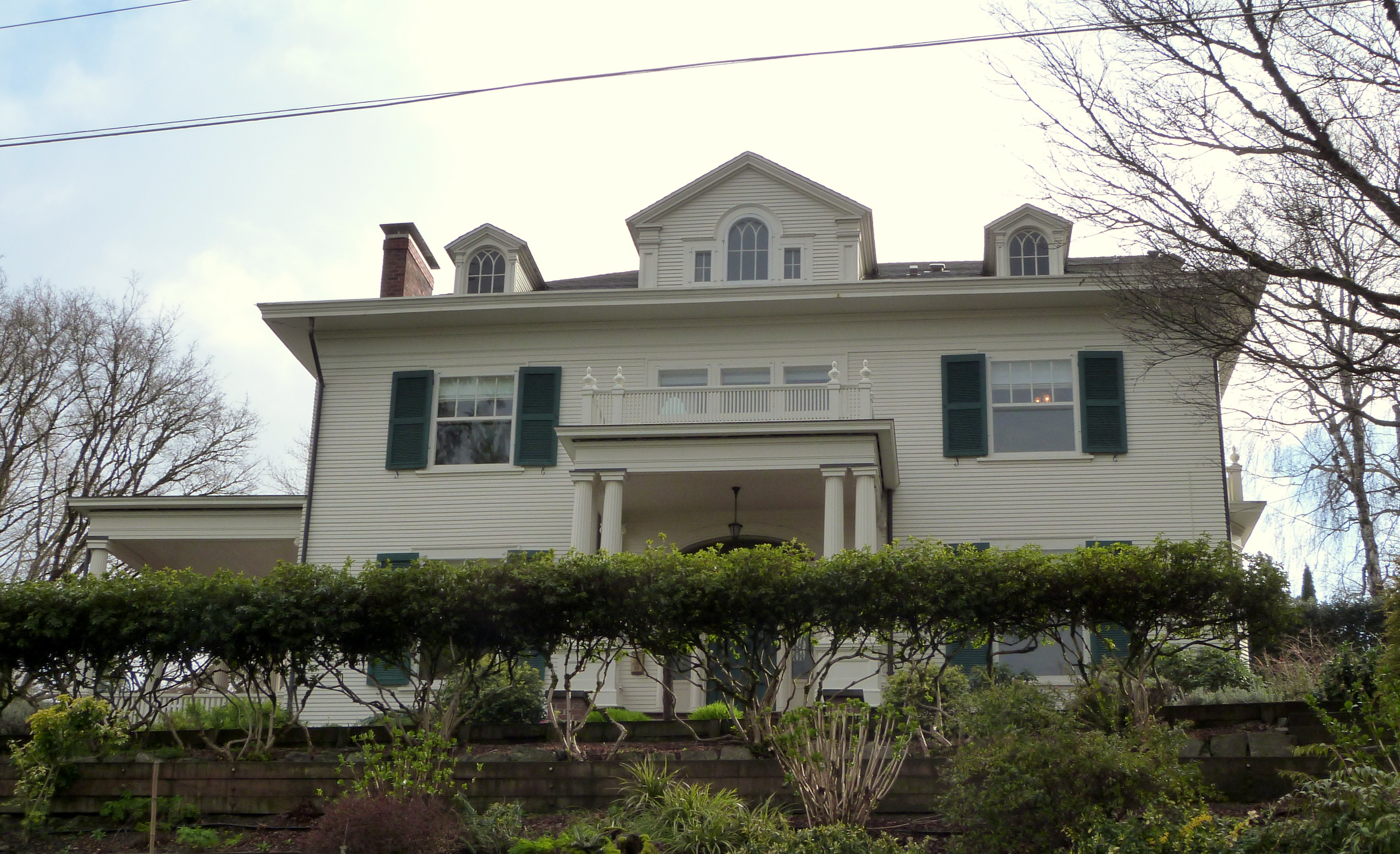 The historic Arthur Champlin Spencer and Margaret Fenton Spencer House (built 1909), located at 1812 Southwest Myrtle Street in Portland, Oregon, United States, is listed on the US National Register of Historic Places.